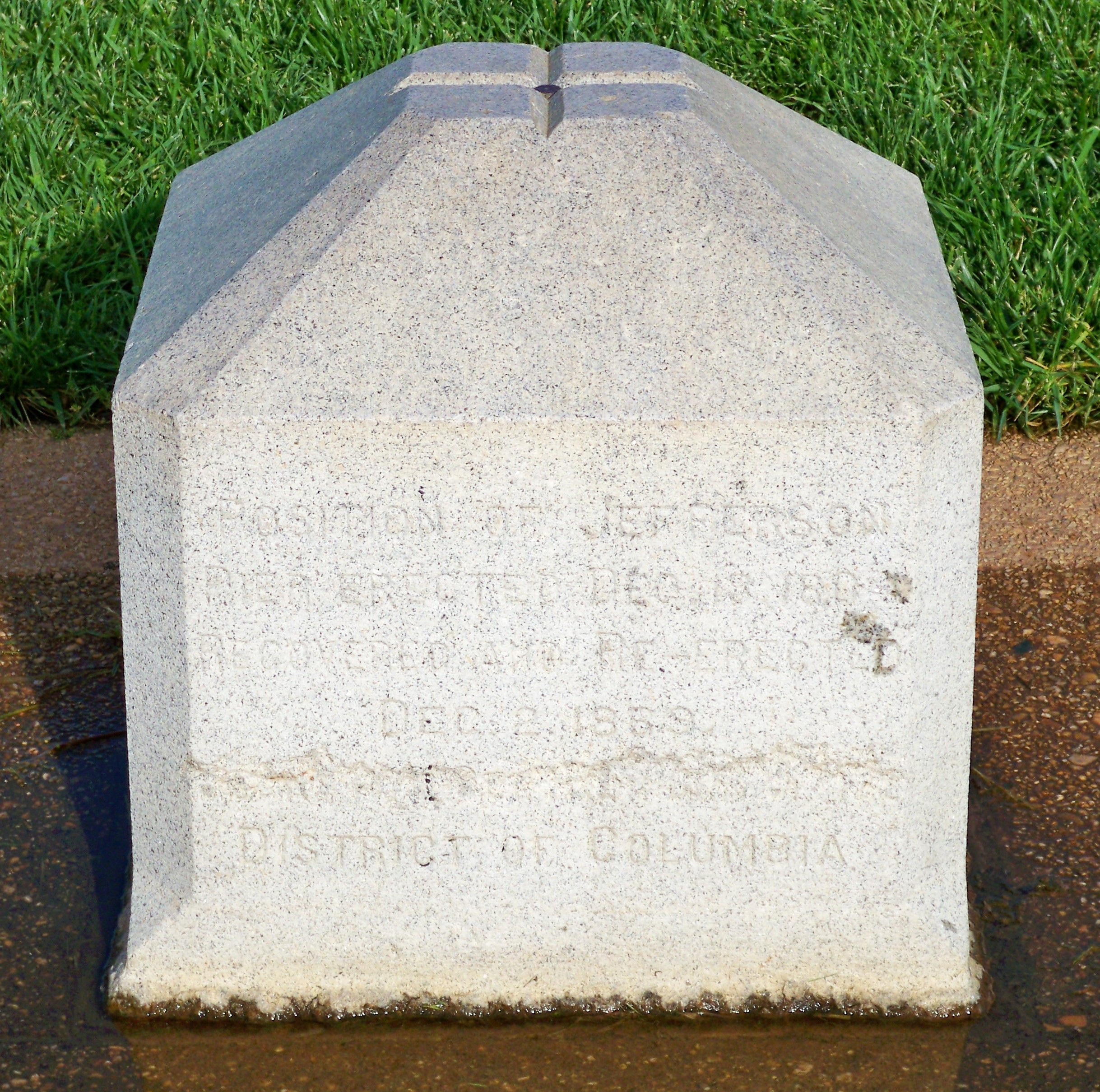 The Jefferson Pier near the Washington Monument.